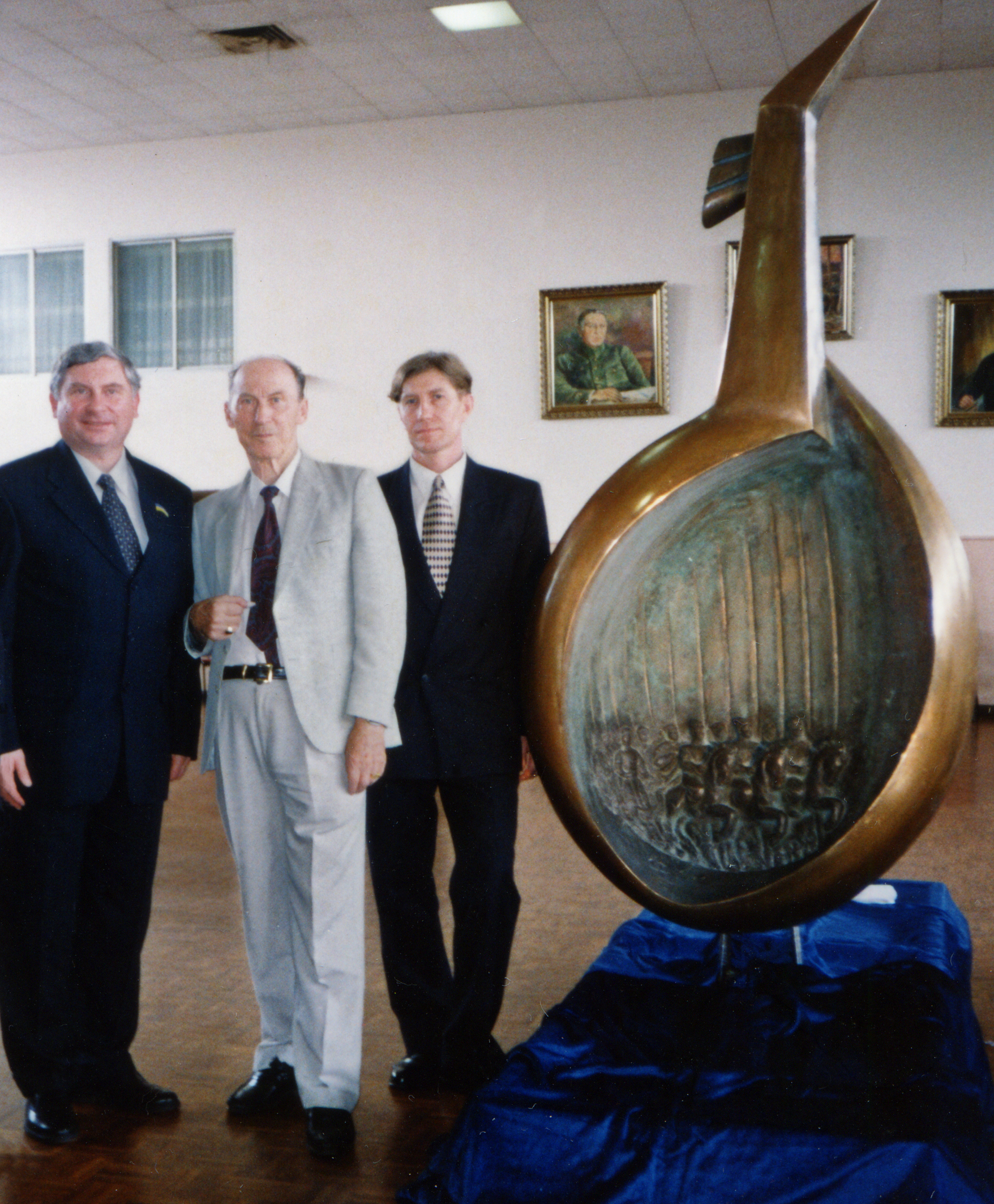 Presentation of the sculpture dedicated to Taras Shevchenko "Shevchenko's Thoughts" to the Ukrainian community in Sydney by the sculptor Anatoliy Valiev, as a gift from the Kyiv City State Administration. This presentation was after the Shevchenko concert held in the Ukrainian Youth Centre in Lidcombe in March 2000. From left to right: Volodymyr Yalovyi (Deputy Lord Mayor of the City of Kyiv), Peter Kravchenko (intermediary and Secretary of the Ukrainian Artists Association of Australia) and Anatoly Valiev (author of the sculpture, from Ukraine). Due to indecision by the leaders of the Ukrainian Australian community, the sculpture was not installed until 2005, in Canberra.